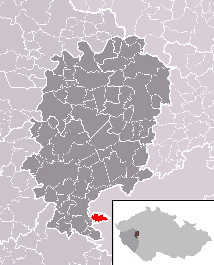 Location of Skořice municipality within Rokycany District and within identical administrative area of Rokycany as a Municipality with Extended Competence.